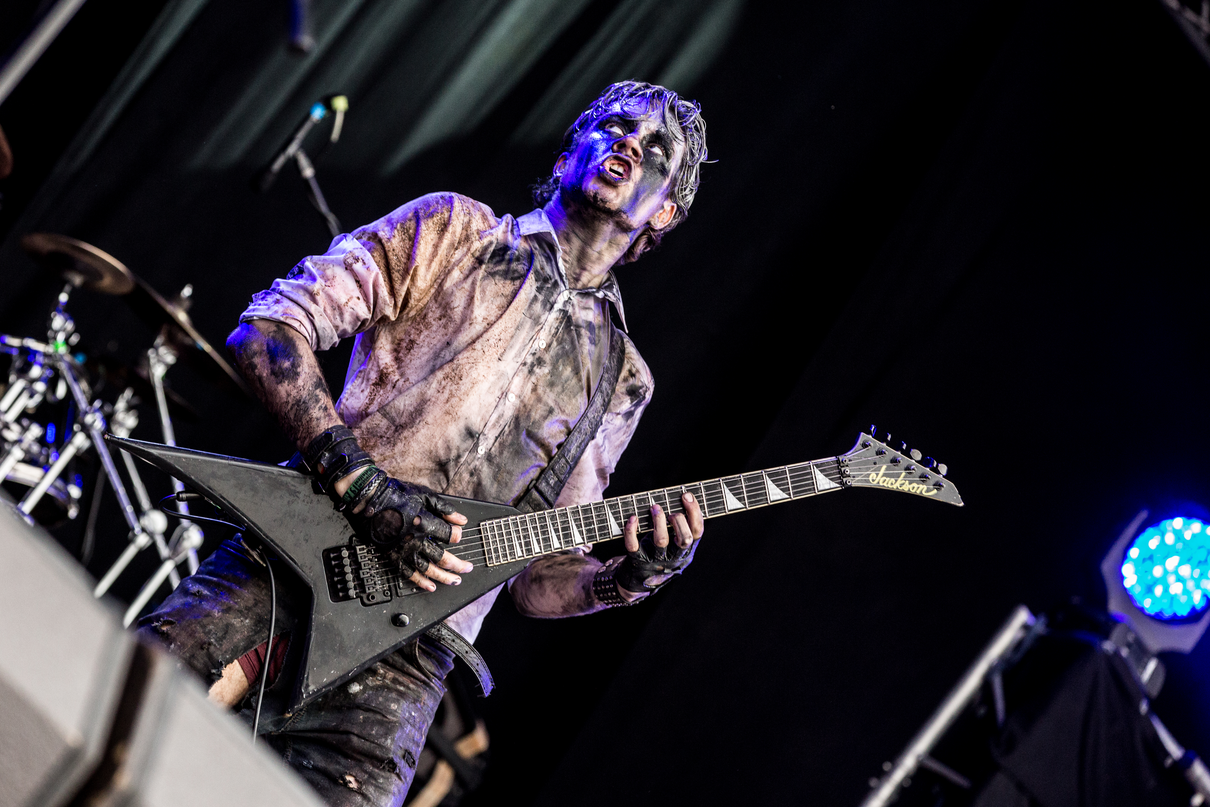 The Icelandic black metal band Misþyrming at the Party.San Metal Open Air 2016 in Obermehler-Schlotheim/Germany.